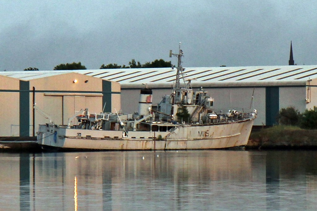 HMS Bronington (M1115), West Float, Birkenhead